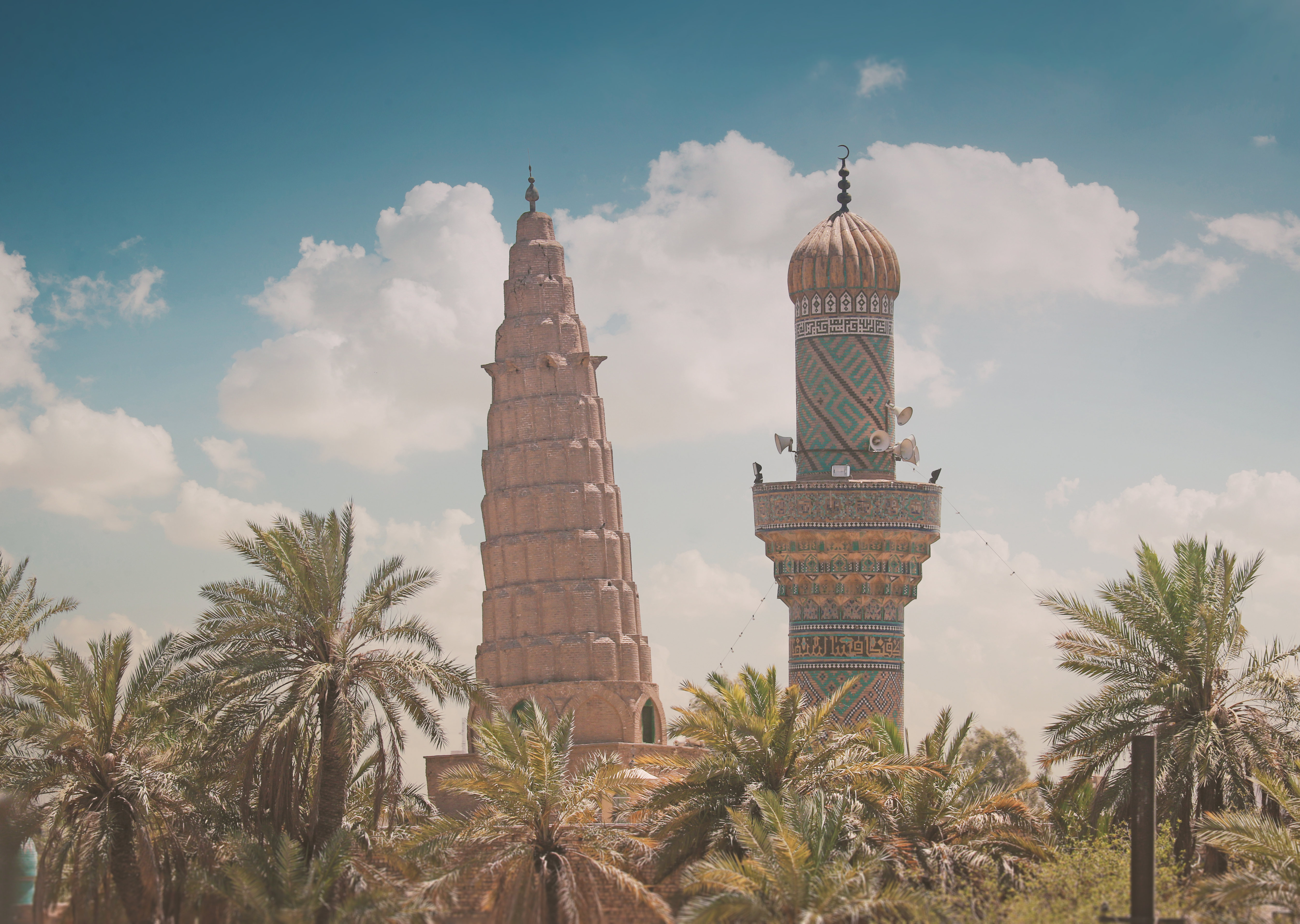 مرقد الشيخ عمر السهروردي في المقبرة الوردية ببغداد